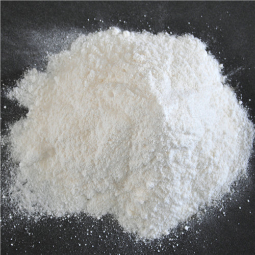 Appearance of magnesium acetate